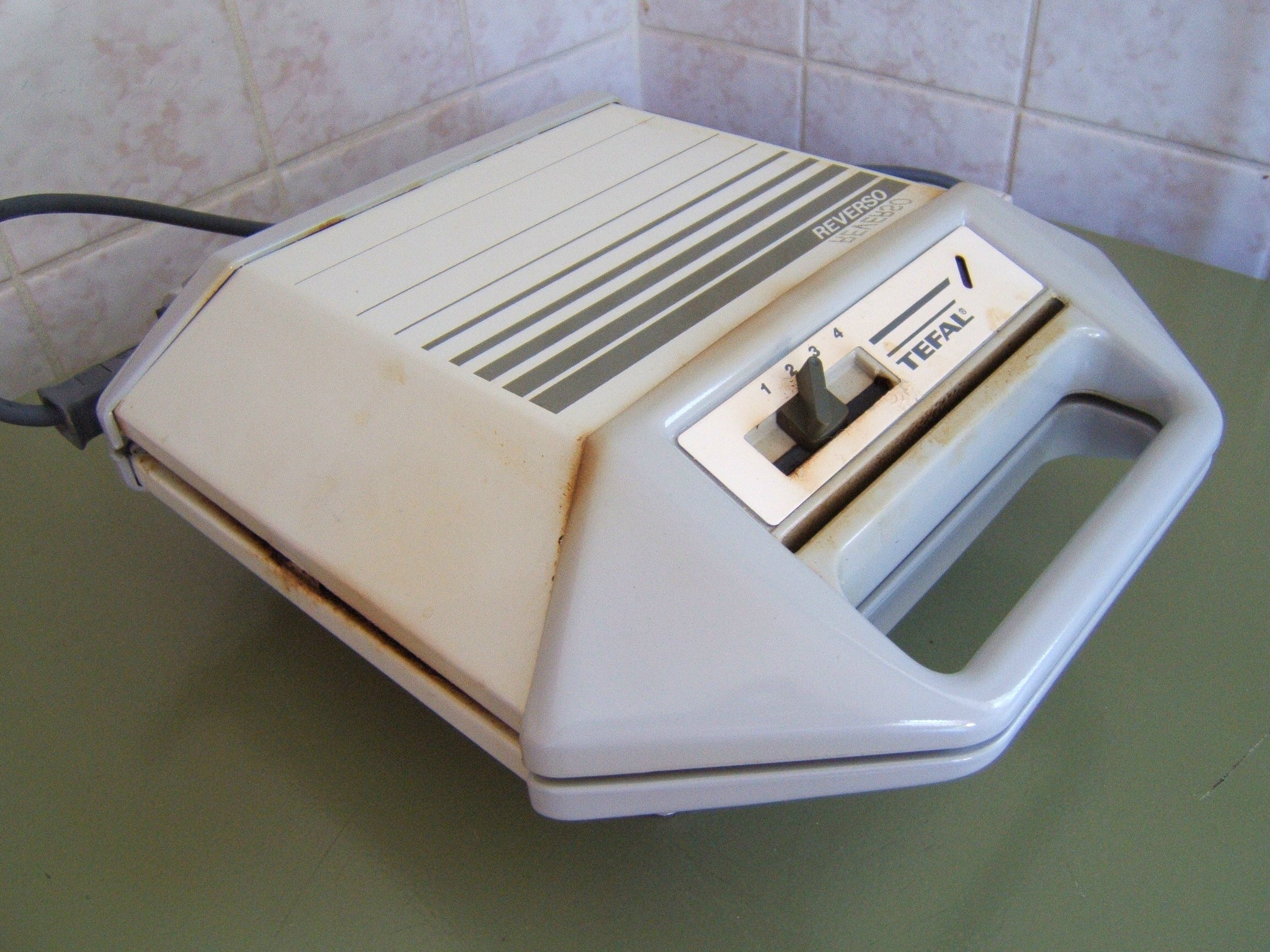 Sandwich toaster.